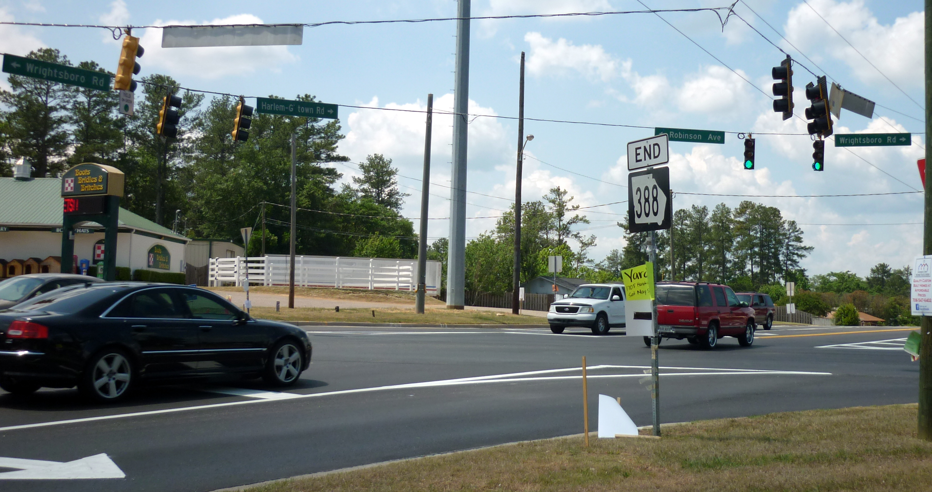 This is the western terminus of SR 388 in Grovetown, Georgia.